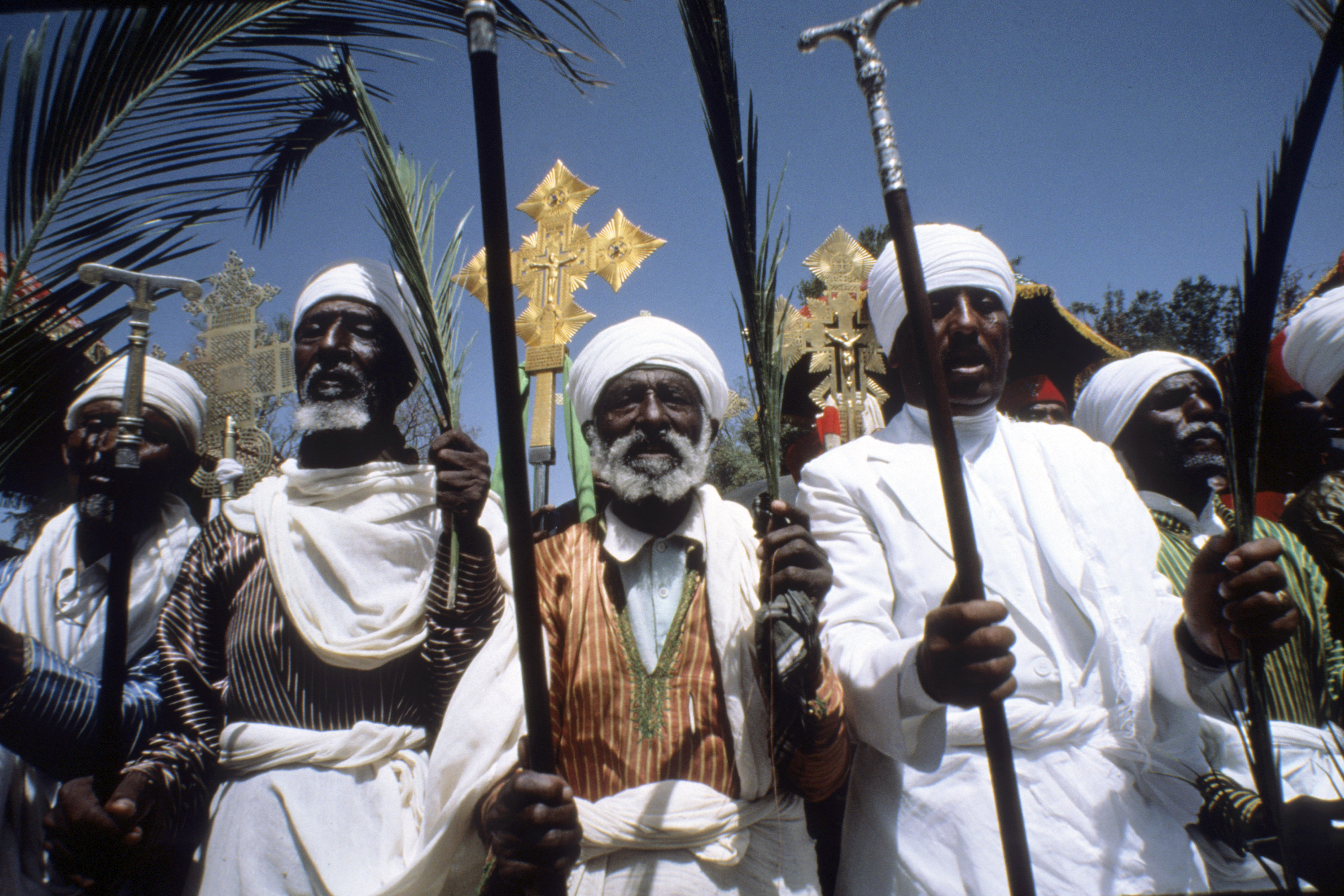 Priest of rock-Hewn Churches of Lalibela, a high place of Ethiopian Christianity, still today a place of pilmigrage and devotion. Lalibela, EthiopiaRomână: Preot al bisericilor rupestre din Lalibela, loc sfânt în creștinismul etiopian, în continuare un loc de pelerinaj. Lalibela, Etiopia